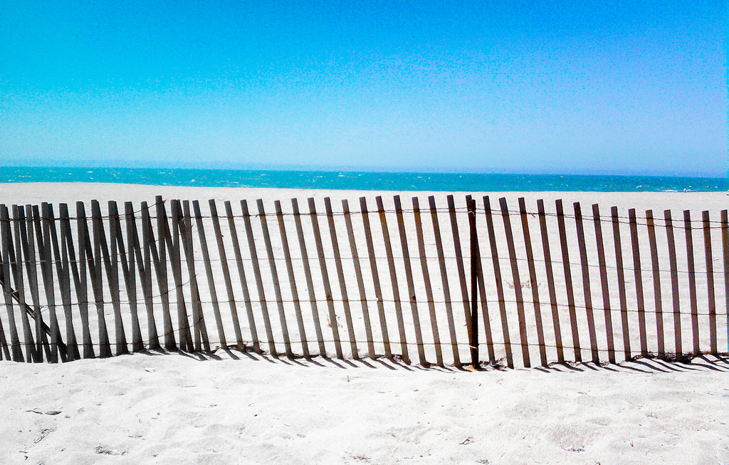 Edited picture of Huntington Beach.